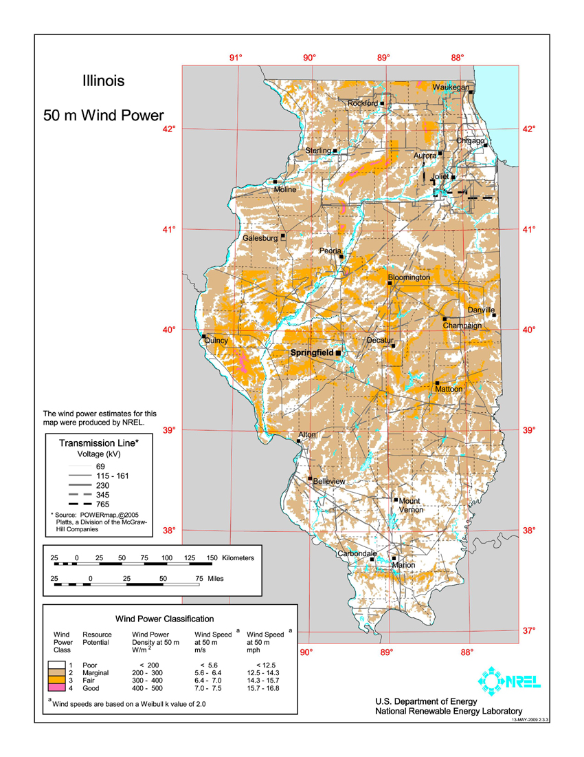 Average annual wind power distribution for Illinois, 50m height above ground, also showing location of existing electrical transmission lines